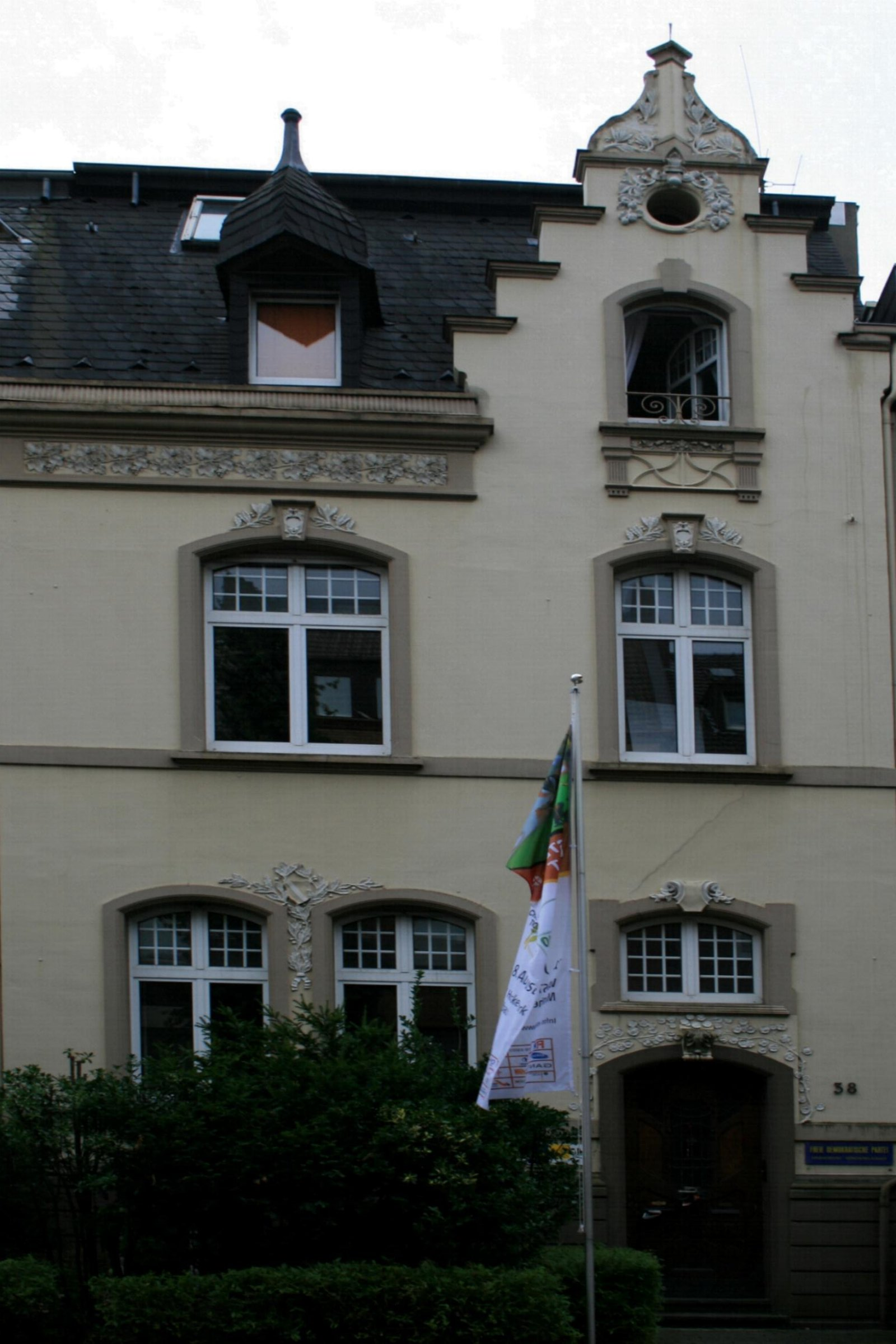 Cultural heritage monument No. W 019 in Mönchengladbach